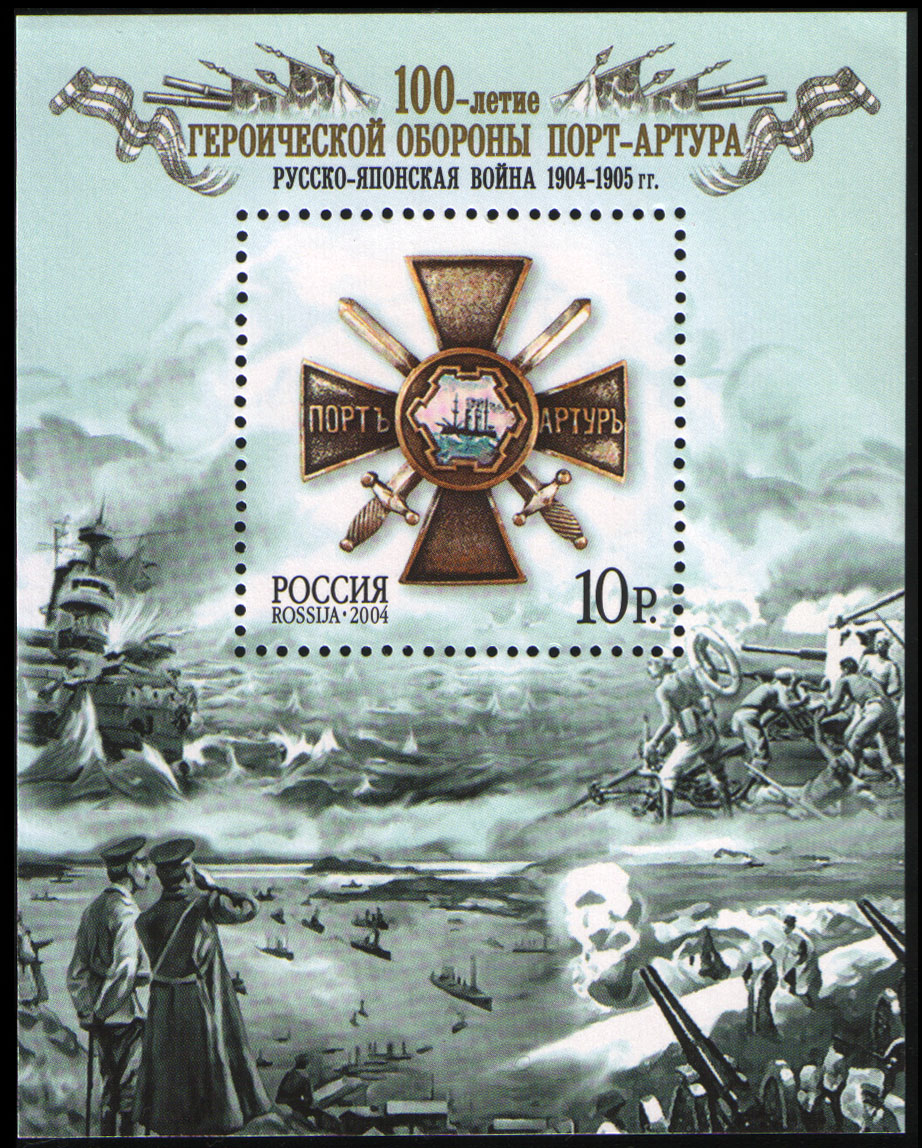 Stamps of Russia. The 100th anniversary of the heroic defence of Port Arthur. Russian-Japanese war of 1904-1905, 2004